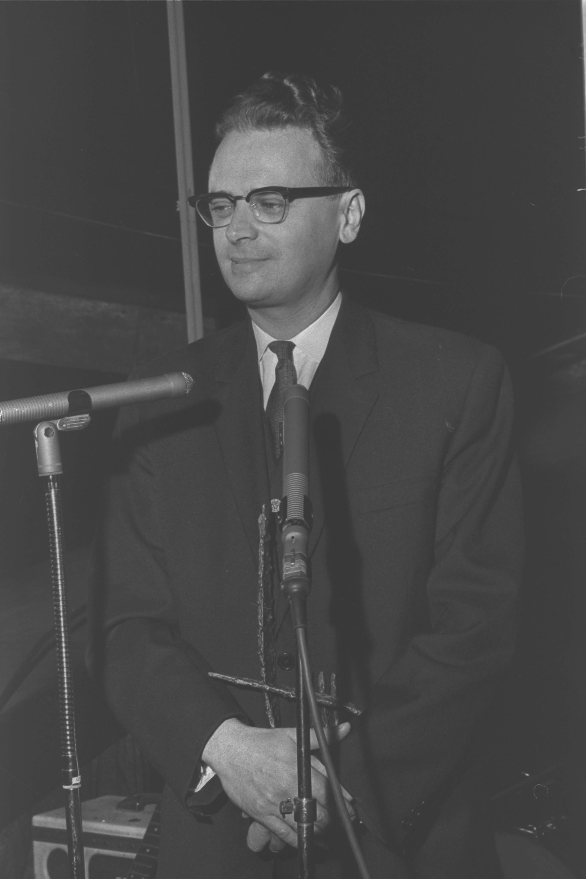 THE 1964 "KINOR DAVID" AWARD, HELD AT THE "CAMERI" THEATRE. IN THE PHOTO, BEST WRITER EPHRAIM KISHON ON STAGE